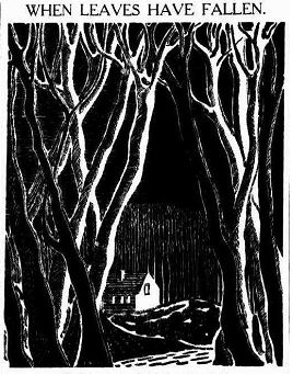 illustration by the poet accompanying "When the leaves have fallen"